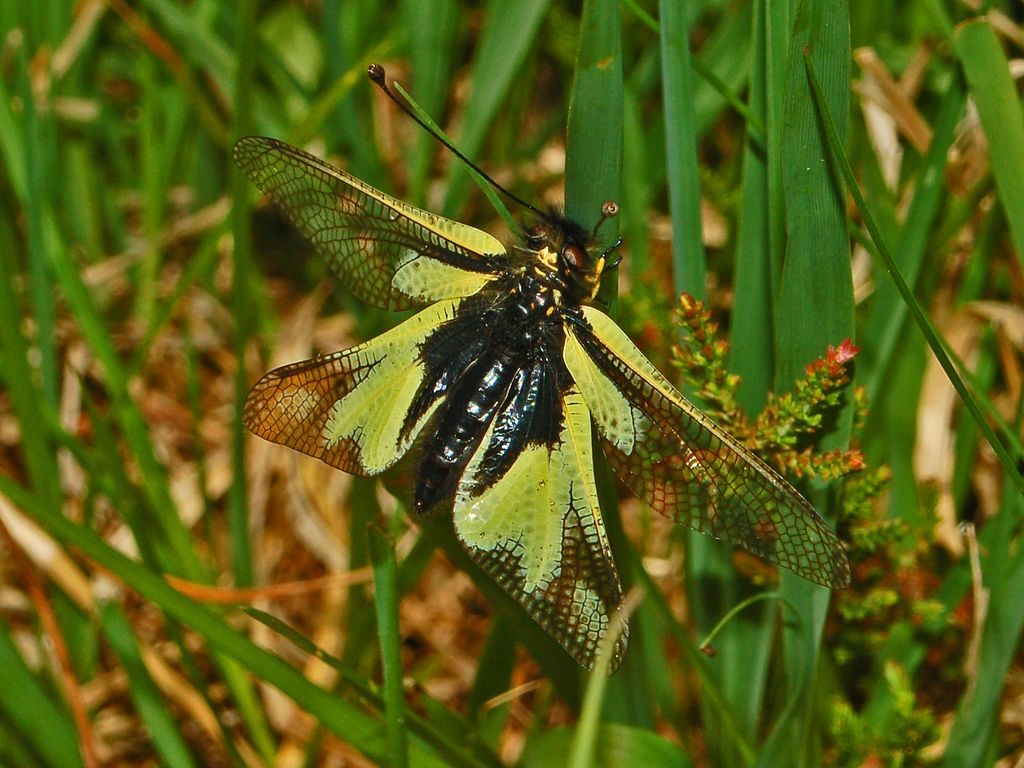 Libelloides coccajus - female